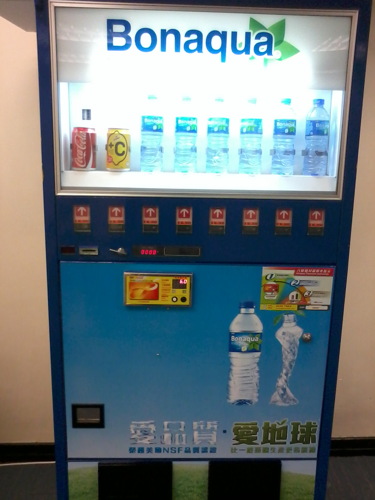 香港文化中心, Hong Kong Cultural Centre, Tsim Sha Tsui, Hong Kong